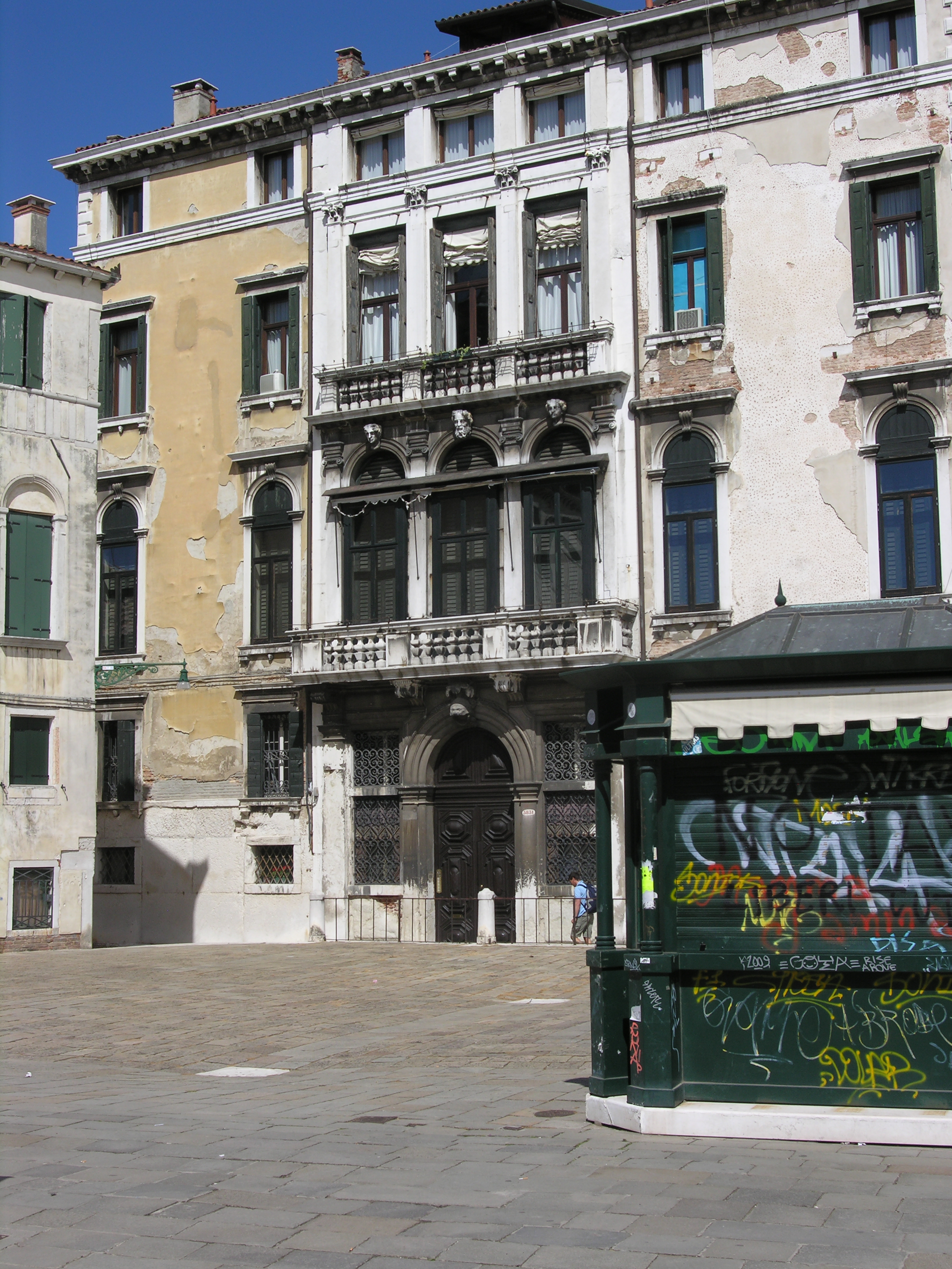 San Marco, 30100 Venice, Italy